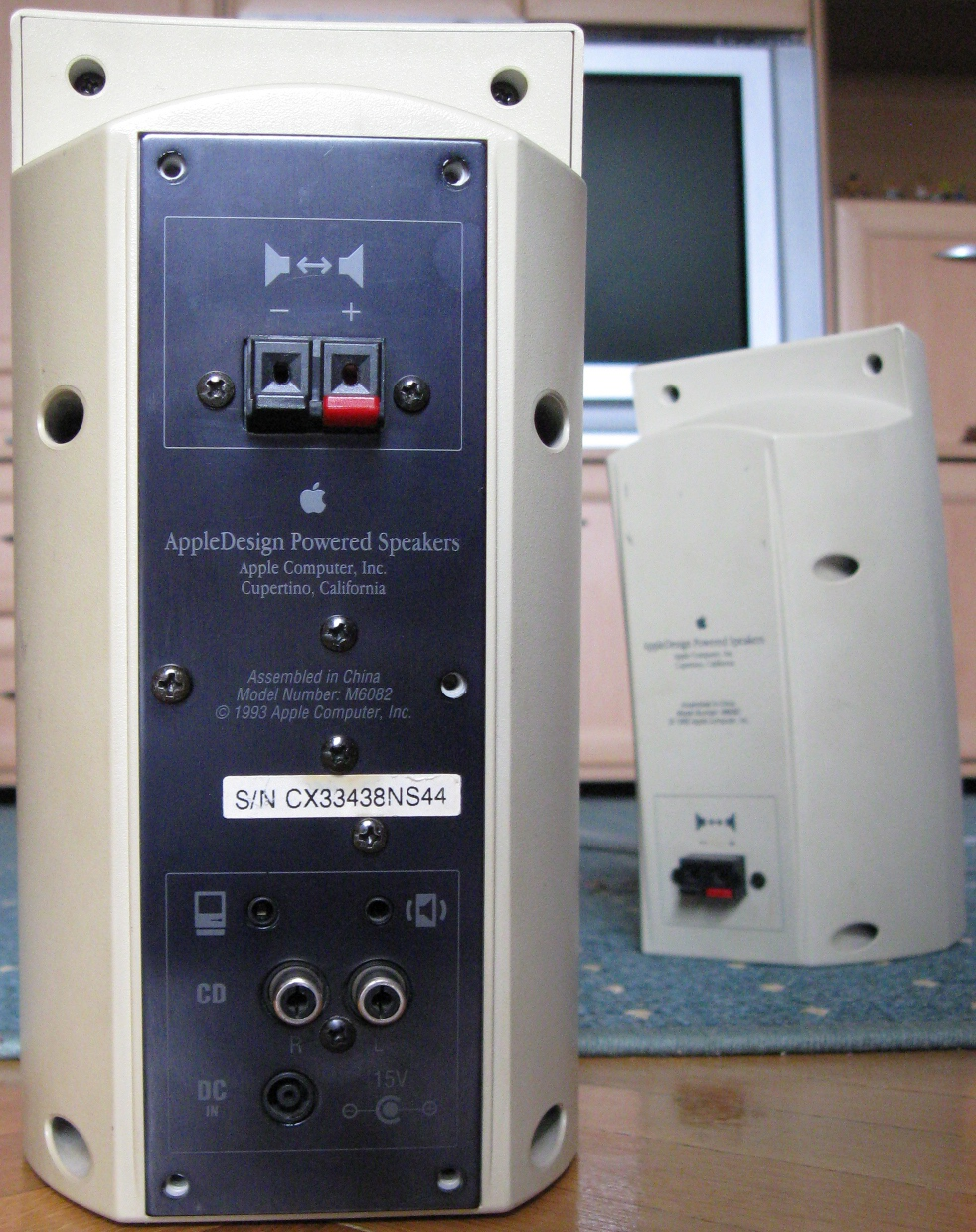 AppleDesign Powered Speakers (M6082) 1993